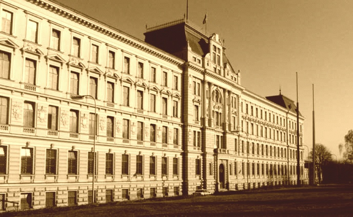 Building of the Ministry of Defense in Prague - Na Valech. On the third floor of the building where the Ministry of Defense of the Czech Republic is housed today (2018), the War School and the Course for High Commanders were placed in the interwar period. In 1921, a newly founded War School was housed in the building, after 1934 was renamed on the War College. This institution worked here until 1938/1939. After World War II, activities of the War College were restored briefly (from 1 October 1945 to 1 October 1948) and then was the War College replaced (from October 1, 1948 to August 15, 1951) by the High Military Academy.